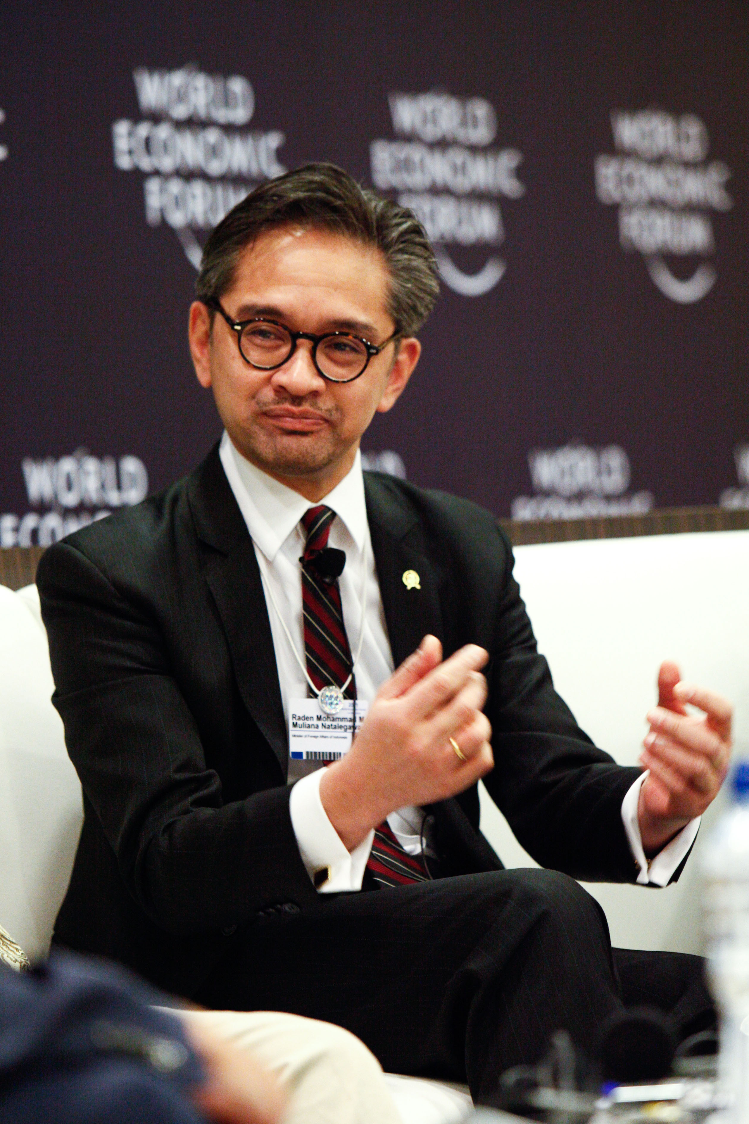 Jakarta/Indonesia, 12 June 2011 - Raden Mohammad Marty Muliana Natalegawa, Minister of Foreign Affairs of Indonesia, captured during the World Economic Forum on East Asia in Jakarta, Indonesia, June 12, 2011.